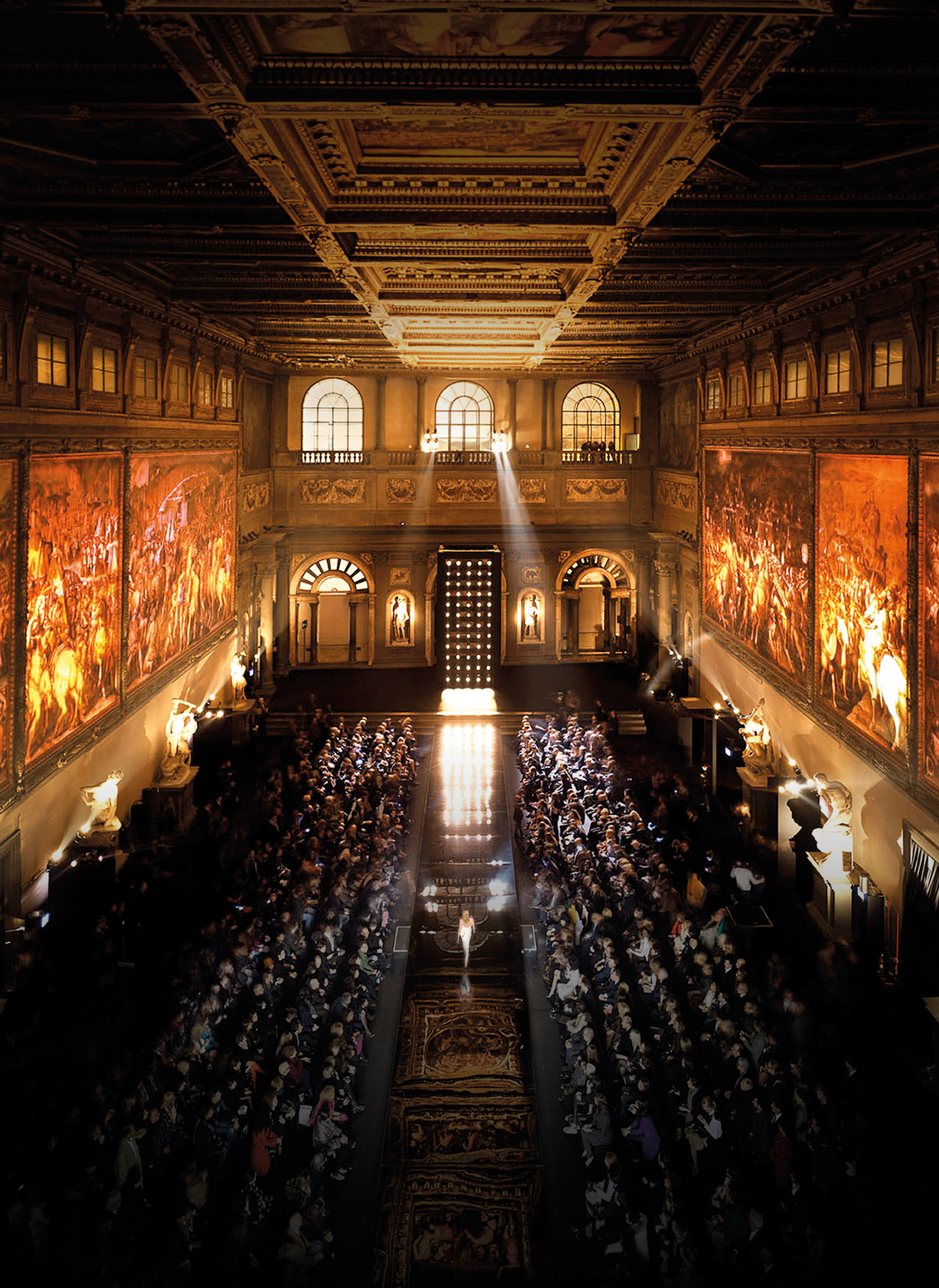 Ermanno Scervino fashion show in the Salone dei Cinquecento during Pitti Immagine in January 2013